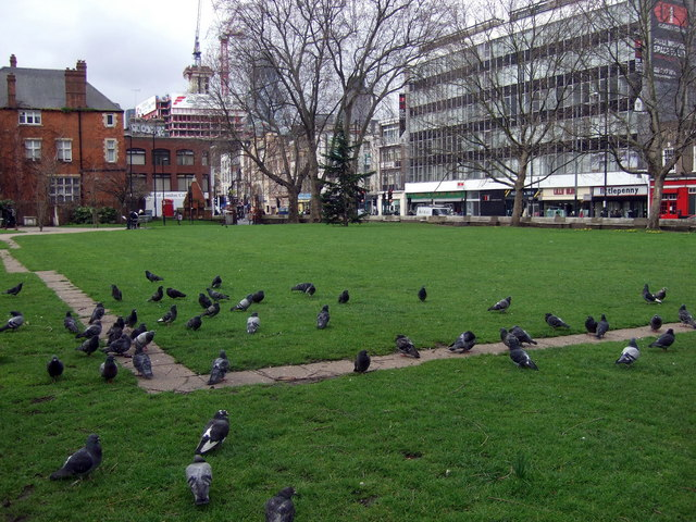 St Mary Matfelon's footprint in what is now Altab Ali Park, Whitechapel, London. The church was bomb damaged in 1940 and demolished in 1952. Matfelon was the name of the family who sponsored the first chapel in the 13th century.